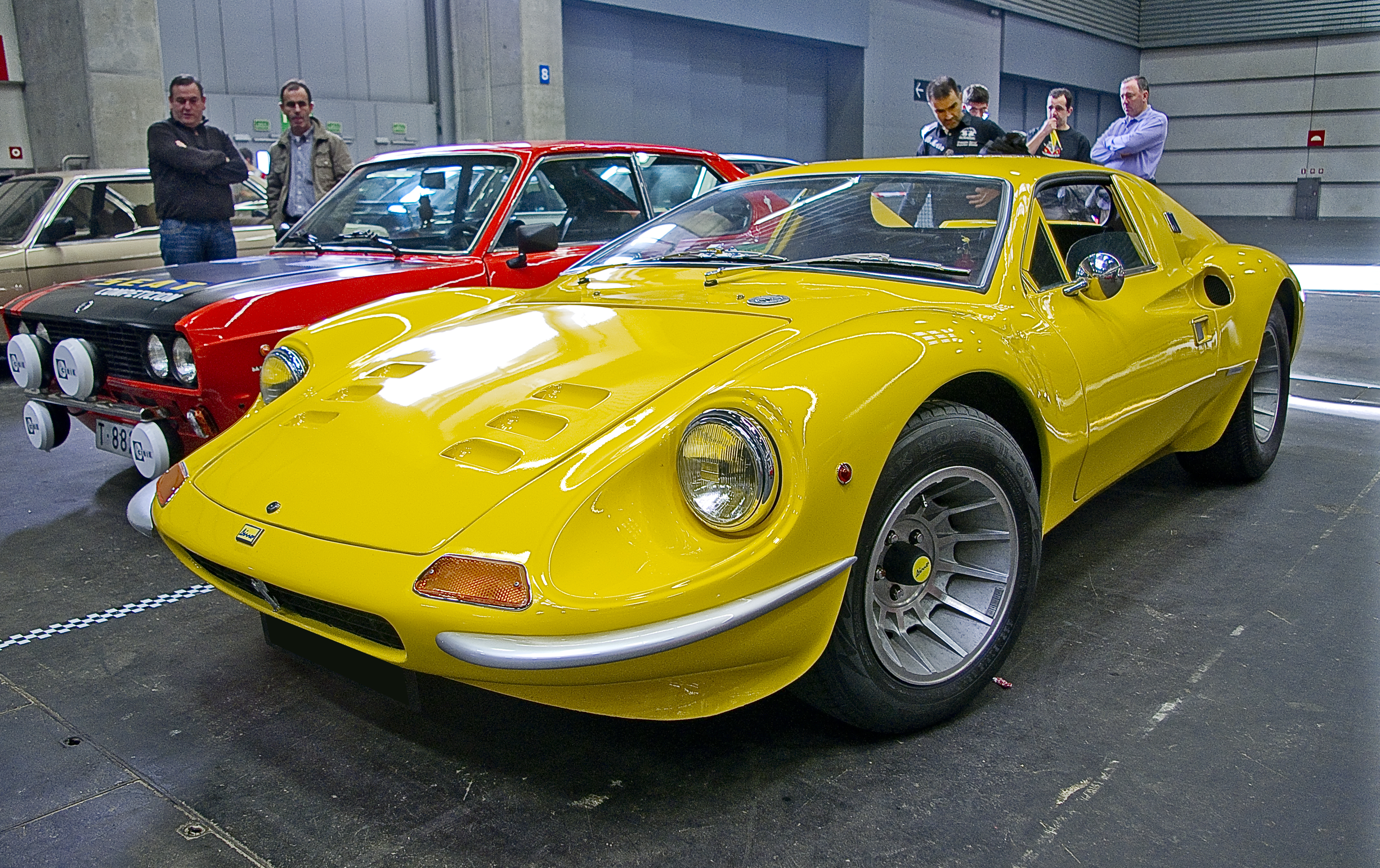 Quite a bad replica of a Dino done on a 1971 Volkswagen 1300...